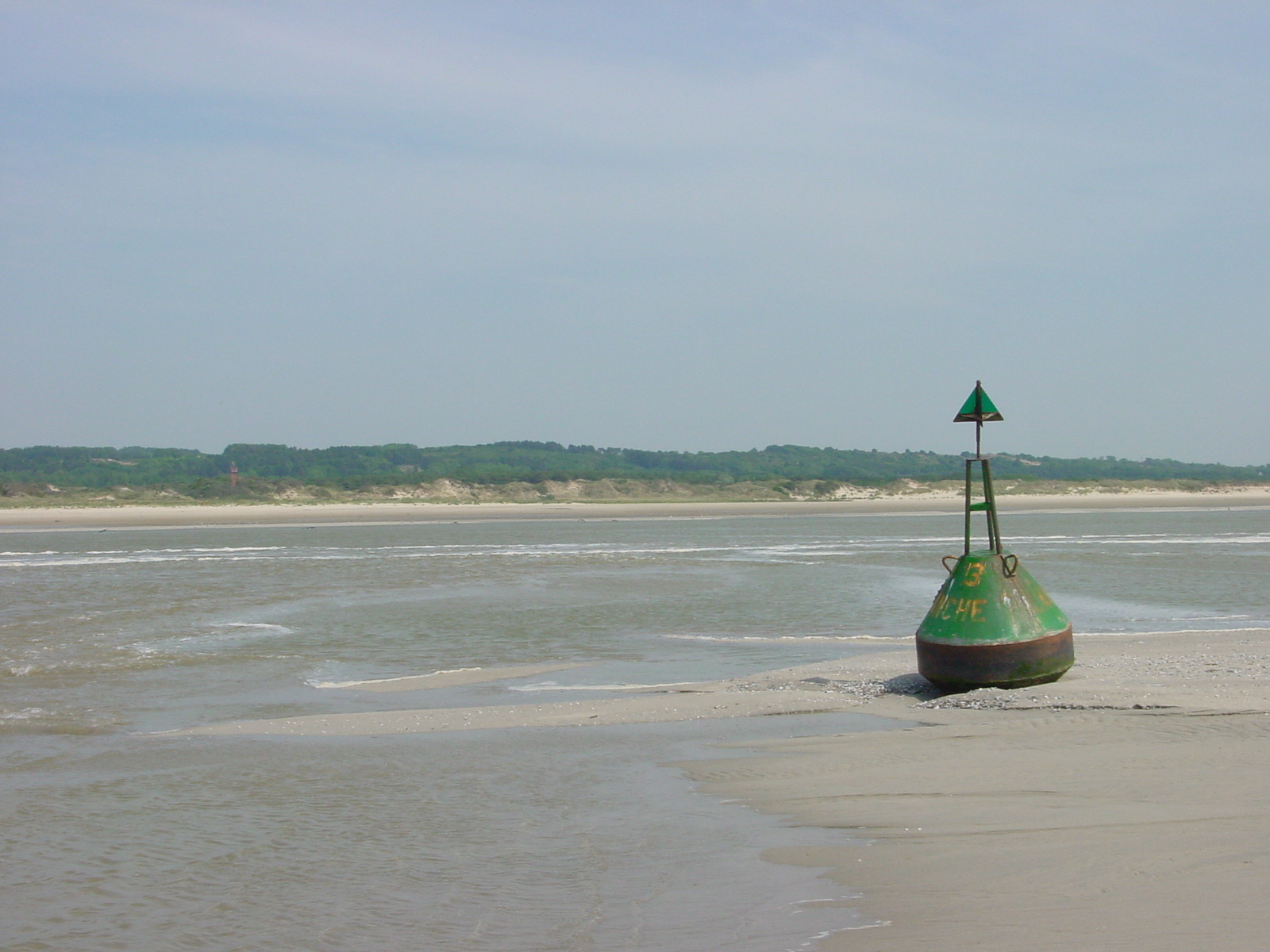 Estuary of river Canche (Pas-de-Calais, France) at low tide, showing north bank